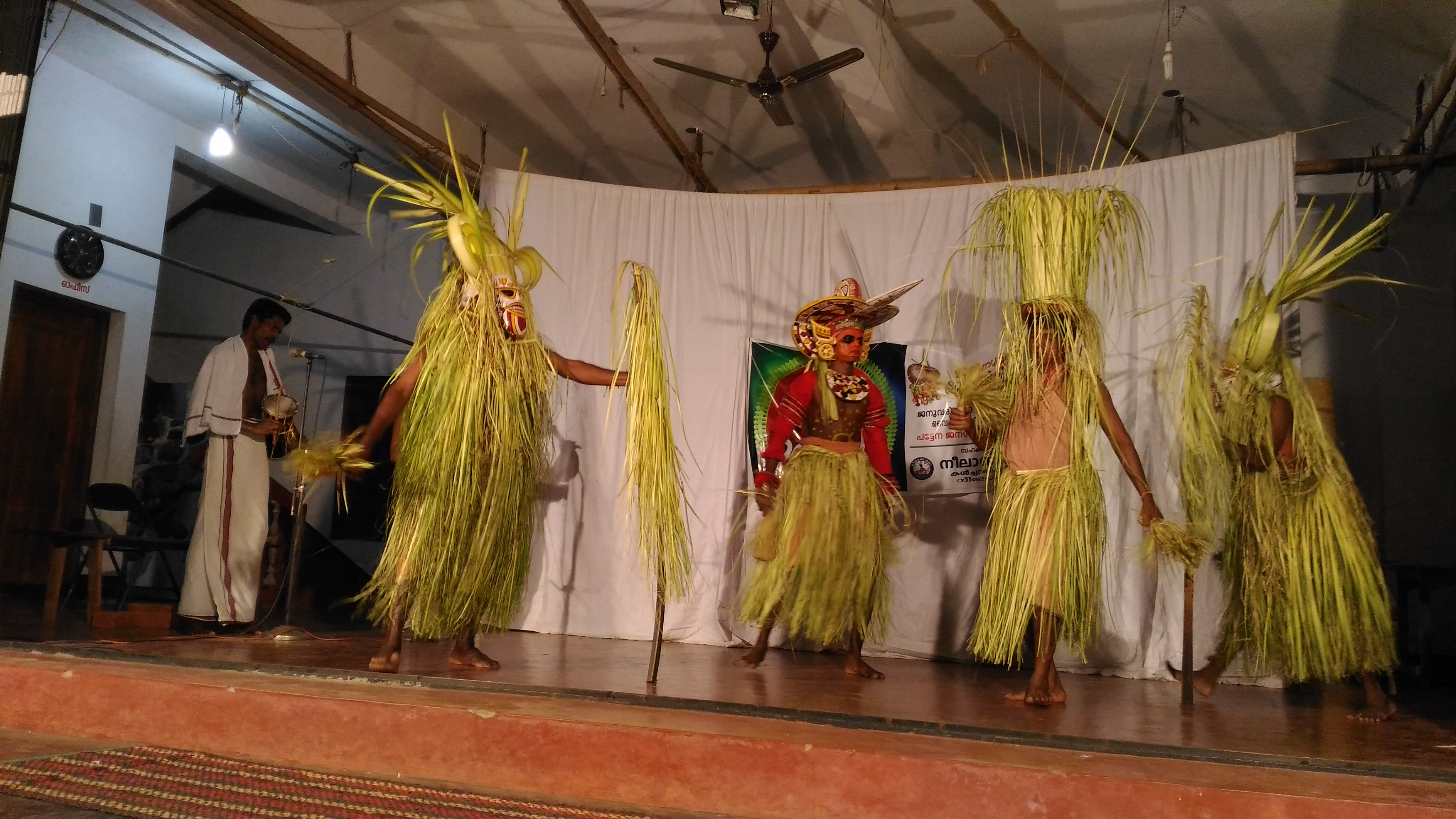 Mariyattam performs at Nileshwar